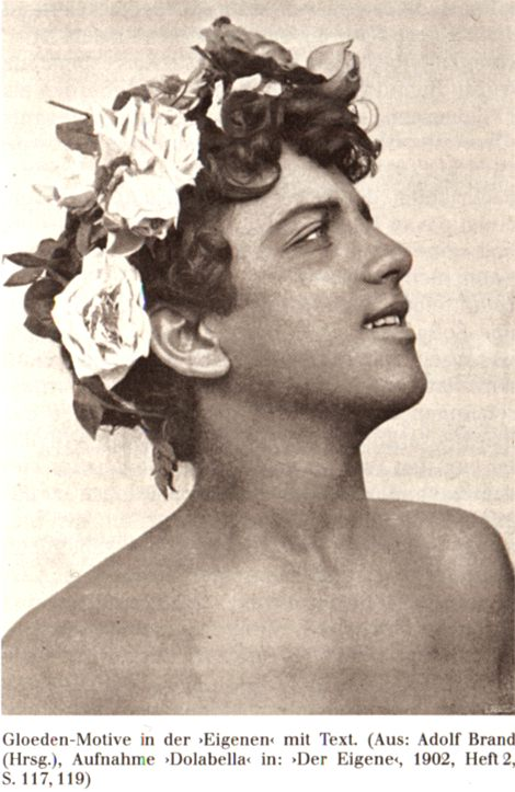 Wilhelm von Gloeden (1856-1931). "Dolabella". Catalogue number: 1248.